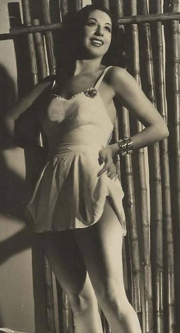 Nené Cao- vedette argentina